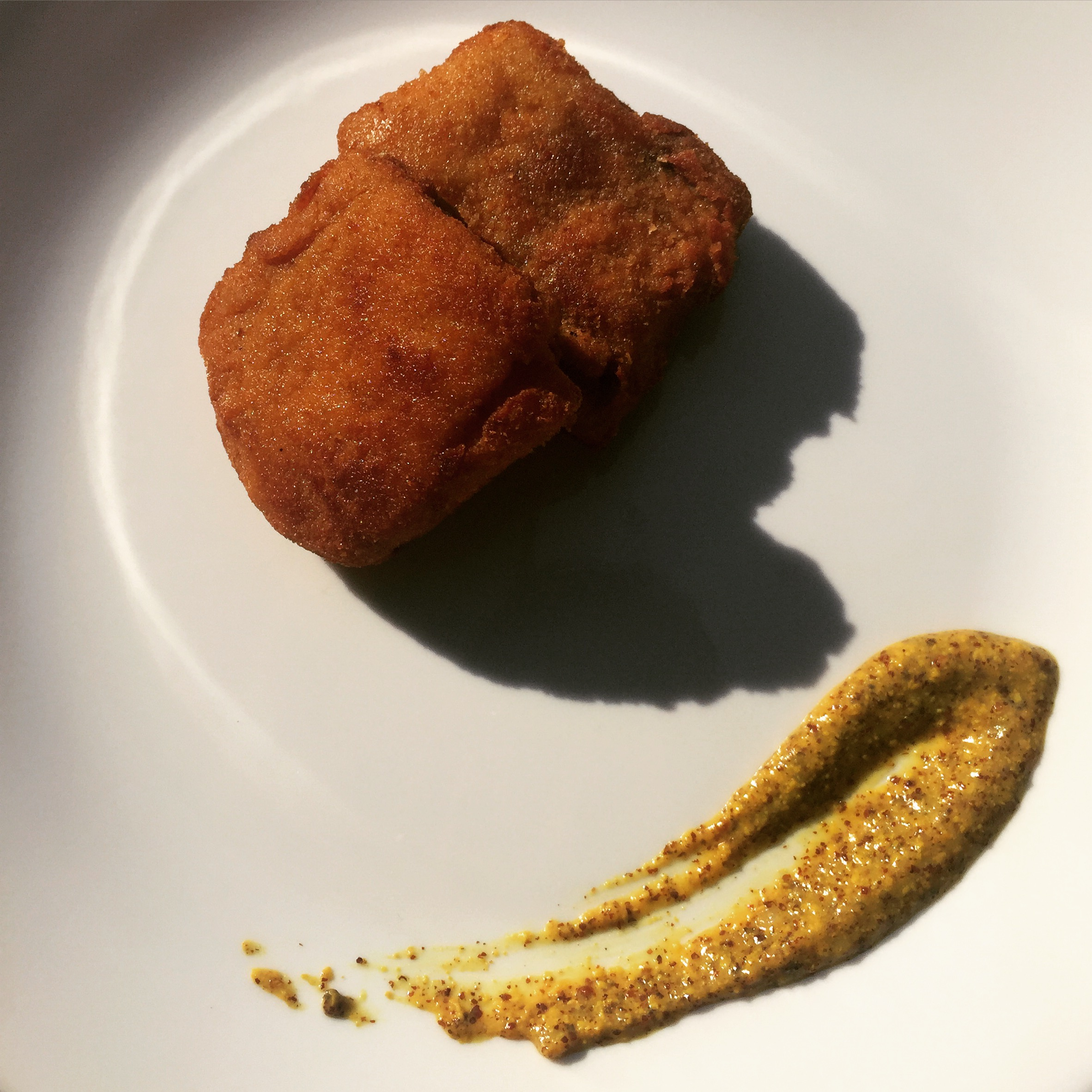 Ma's Fish Cutlets for Sunday breakfast. Kingfish fillet marinated with lemon juice, ginger-garlic chilli paste and dash of salt and pepper. Dipped in a foamy thick beaten egg batter, coated with fine breadcrumbs and fried till just the perfect brown. Hot and flaky fish cutlets with a batter so crunch, one'd go weak in the knees. For plating, I'd recommend a white serving plate, a canvas on which one can present one's best artistic skills by dolloping out some strong tangy Bengali Kasundi mustard and spreading it across with the back of a spoon, till the blob of yellow sauce and its coarse spice content tapers down as it is streaked and looks classy.